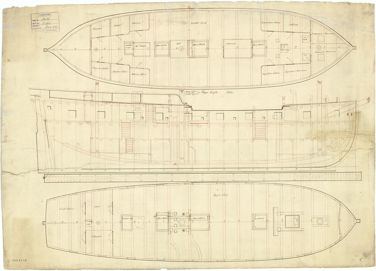 Echo (1782); Rattler (1783); Calypso (1783); Brisk (1784); Nautilus (1784); Scorpion (1785). Scale: 1:48. Plan showing the inboard profile, upper deck, and lower deck for Echo (1782), and later for Rattler (1783), Calypso (1783), Brisk (1784), Nautilus (1784), and Scorpion (1785), all 16-gun Ship Sloops with quarterdecks and forecastles.